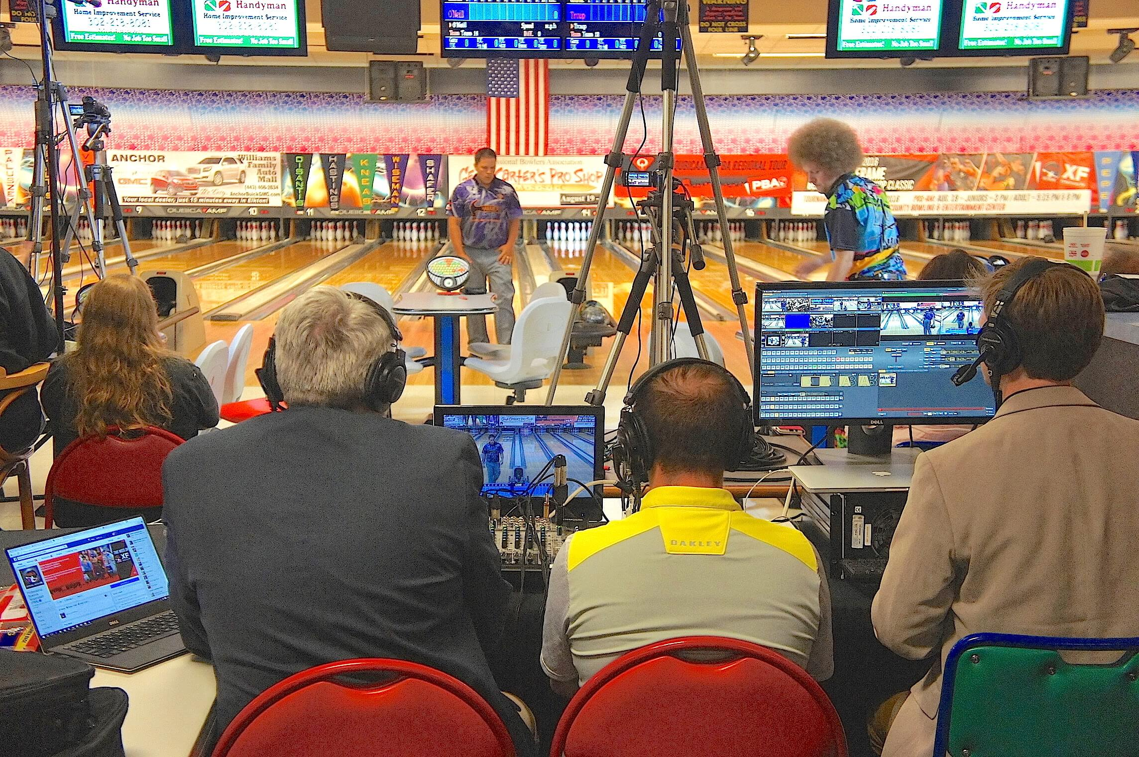 Commentator and broadcast setup for the Professional Bowlers Association Xtra Frame broadcast. Commentator/analyst Mike Jakubowski sits to left of two colleagues whose identities are not known to uploader. Ten-pin bowlers Bill O'Neill and Kyle Troup are on the approach preparing for a tournament match. Third camera is set up out of frame to the right of this picture, for right side views of bowlers in action. Middletown, Delaware, U.S.